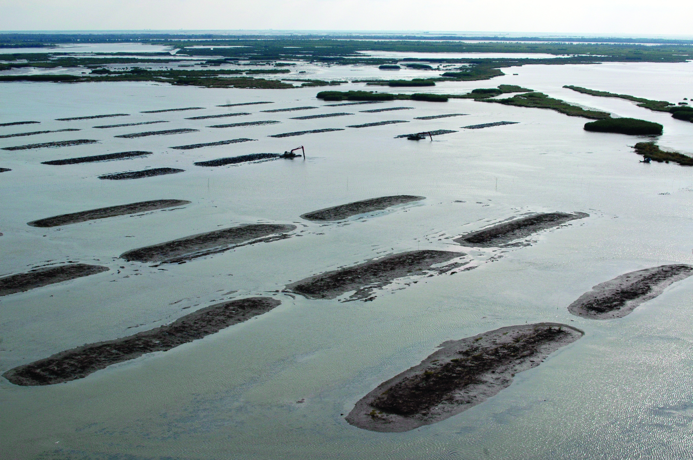 Terraces help trap sediment to build new land.